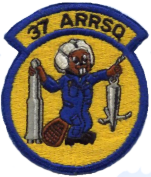 Emblem of the 37th Aerospace Rescue and Recovery Squadron, United States Air Force.